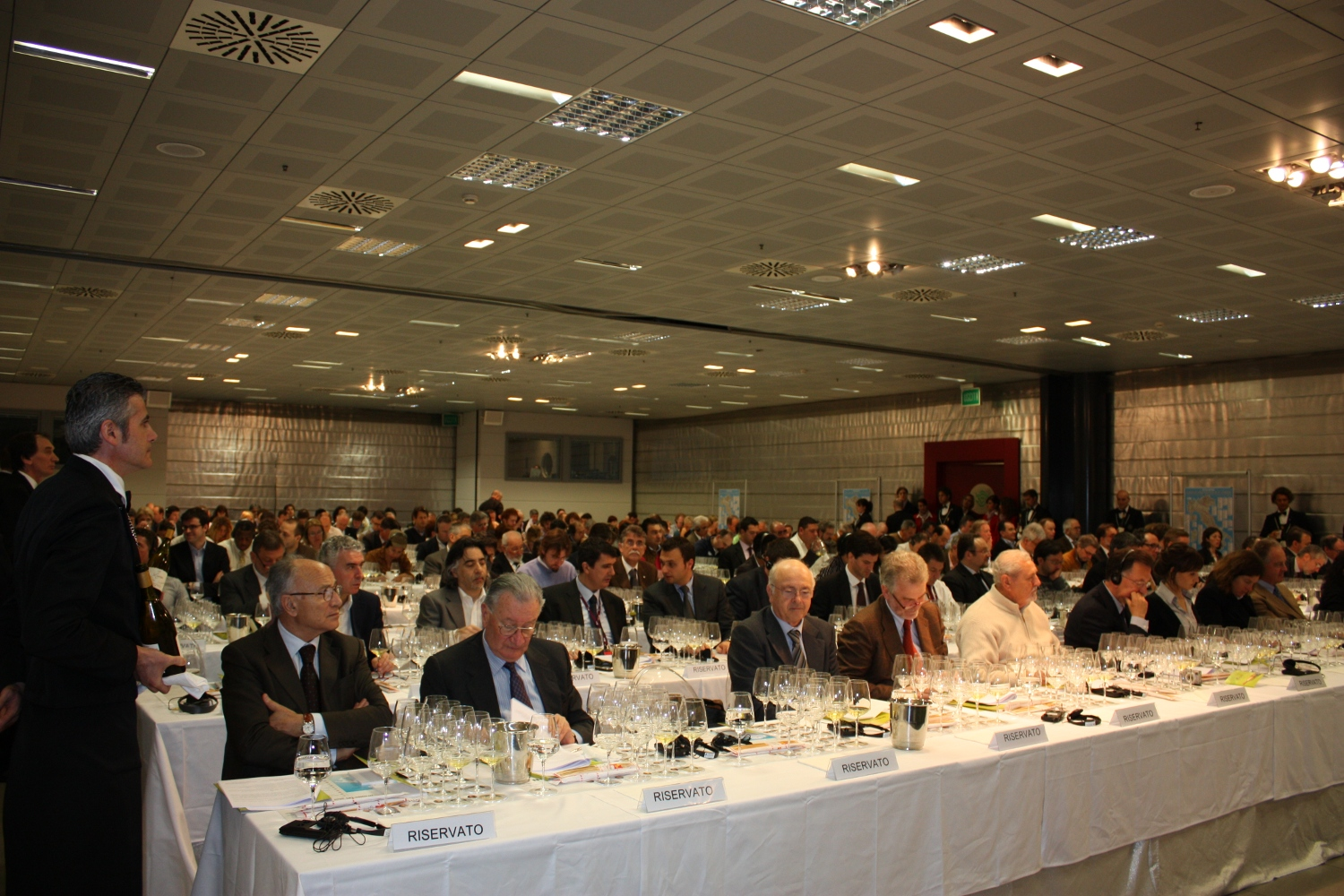 Tasting panel and judging at the Italian wine expo VinItaly in Verona.